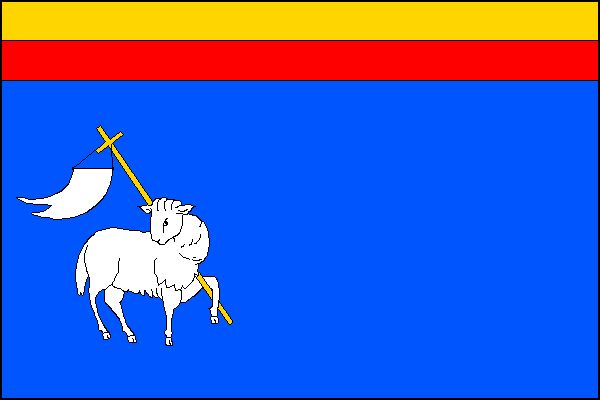 Municipal flag of Drahany market town, Prostějov District, Czech Republic.